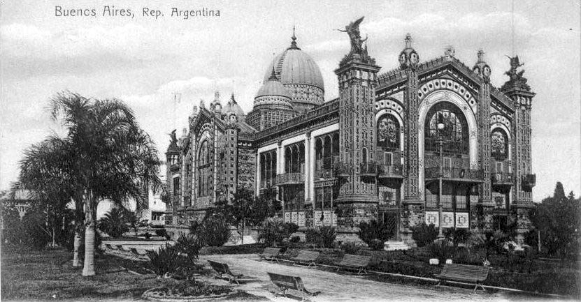 View of the Argentine Pavilion (built for the Exposition Universelle of 1889 held in Paris when it was located in Plaza San Martín of Buenos Aires. The photo was taken on Maipú street, in front of the park.